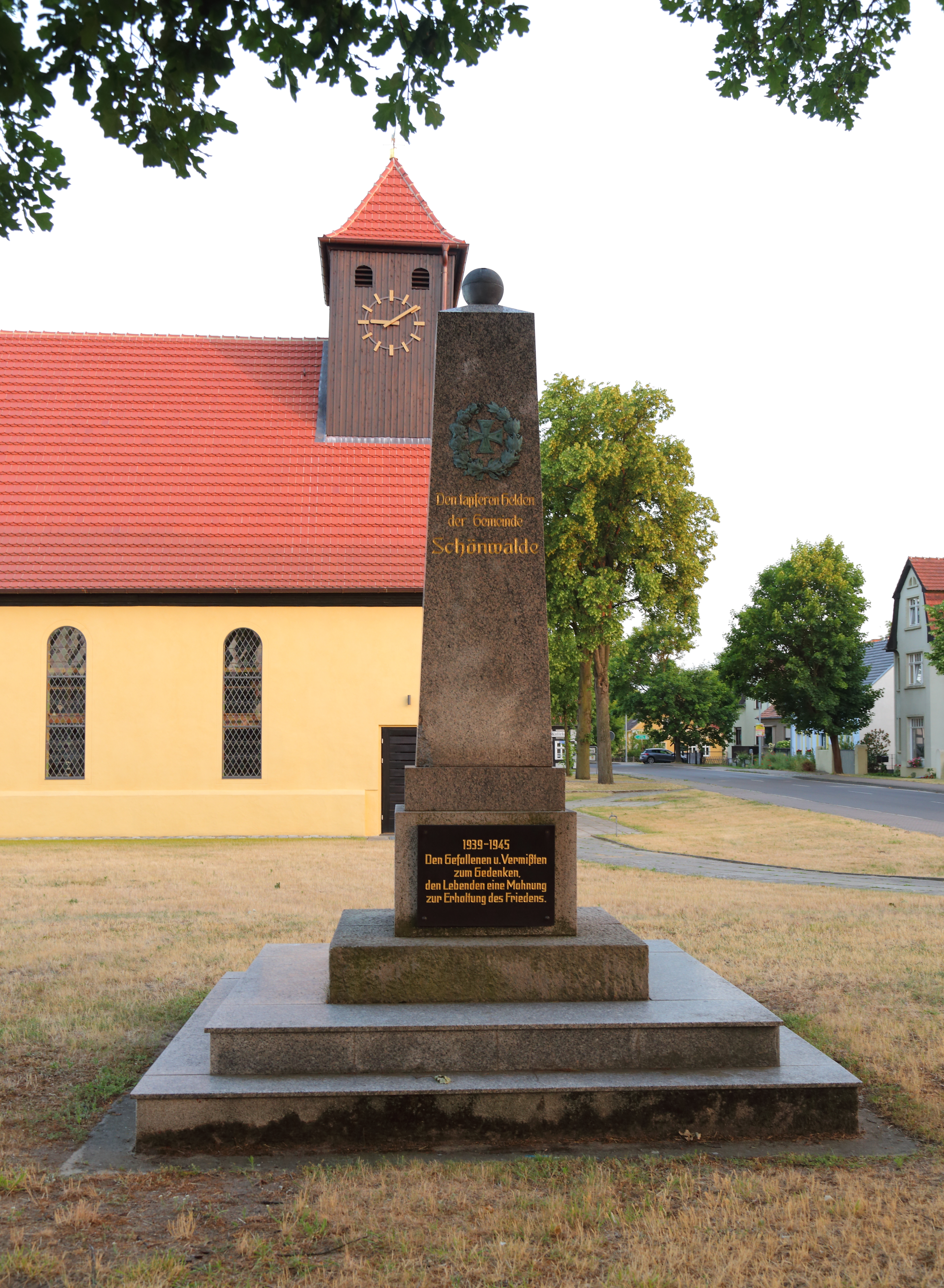 War Memorial of Schönwalde, a district of Schönwald, Landkreis Dahme-Spreewald, Brandenburg, Germany.